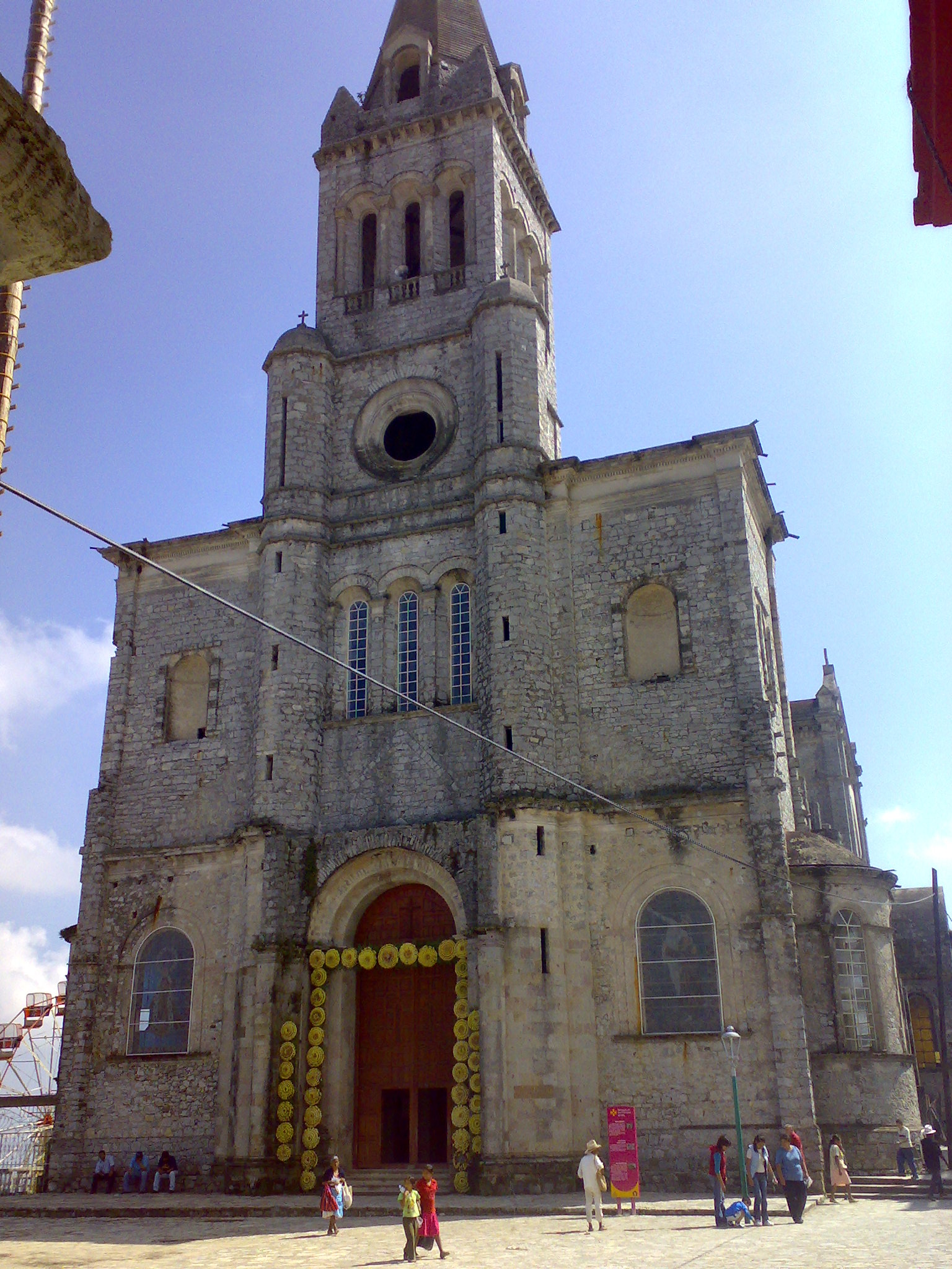 Cuetzalan church on a sunny day